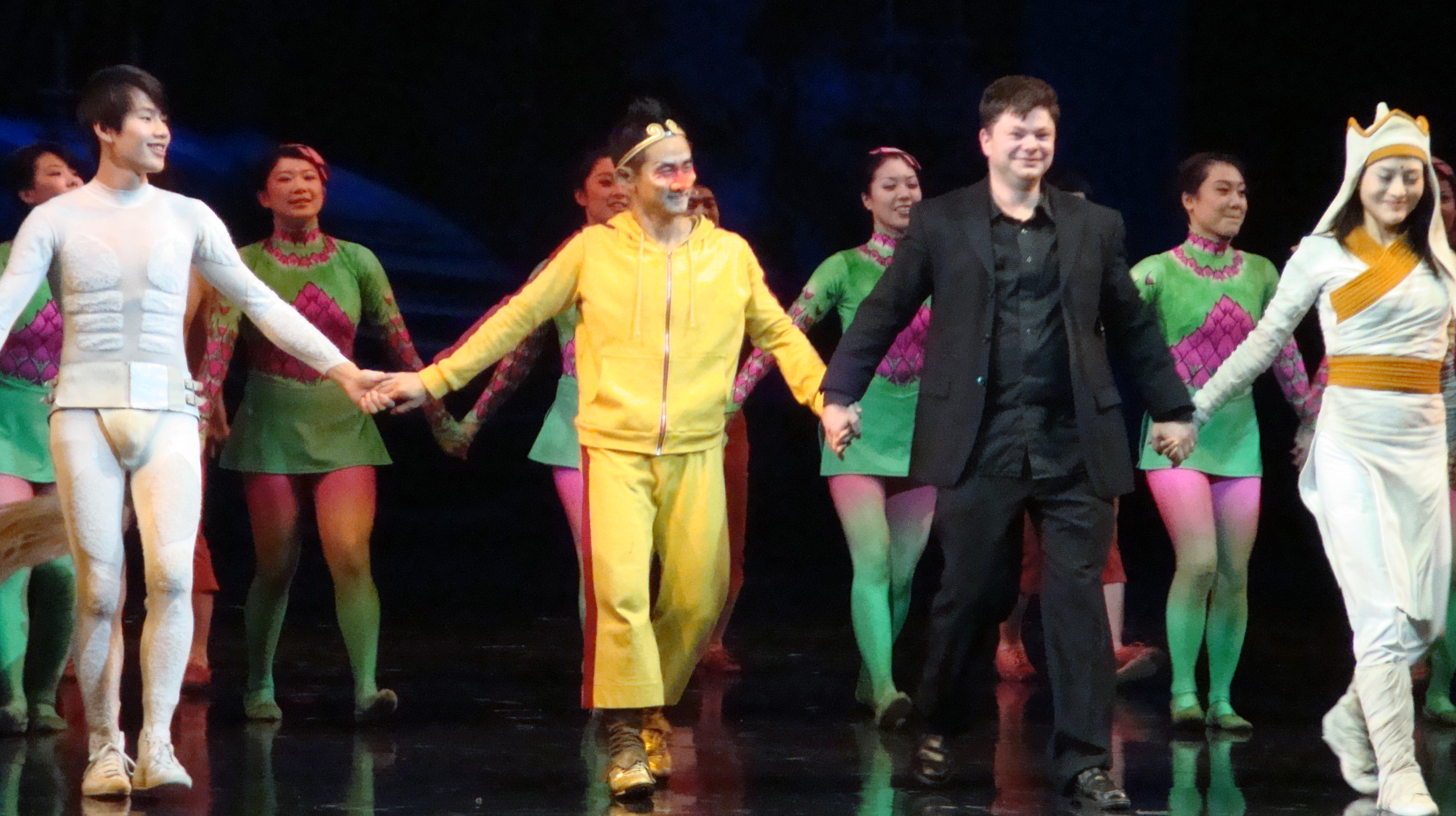 Actors from Monkey: Journey to the West, inluding Yang Fukai, Chen Jihu and Yao Ningning with conductor John Beswick at the O2 Arena, London, December 2008.